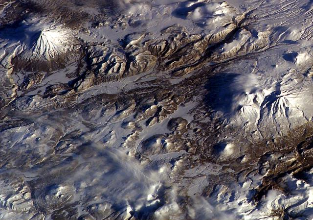 A large group of small shield volcanoes and pyroclastic cones lies at the bottom center of this NASA Space Shuttle image (with north to the top). Otdelniy, Tundroviy and other adjacent unnamed shield volcanoes are surrounded by a large group of late-Pleistocene to Holocene pyroclastic cones SE of Opala (the conical stratovolcano at the upper left) and SW of Asacha volcano (right-center). Scattered groups of young pyroclastic cones are also located south of Opala caldera, whose rim is seen at the left-center.